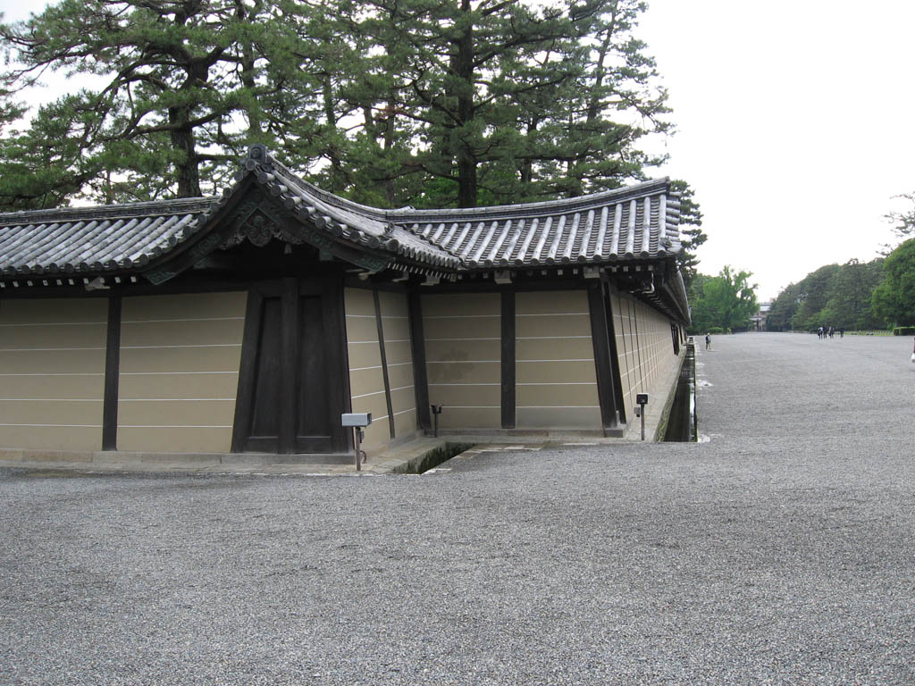 Sarugatsuji of Kyoto Imperial Palace. 京都御所北東角の猿が辻（鬼門封じ）